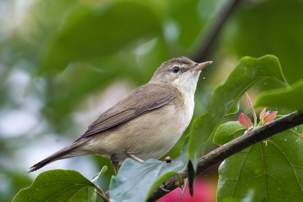 Blyth's Reed warbler shot in Hebbal Lake ,Bangalore,India